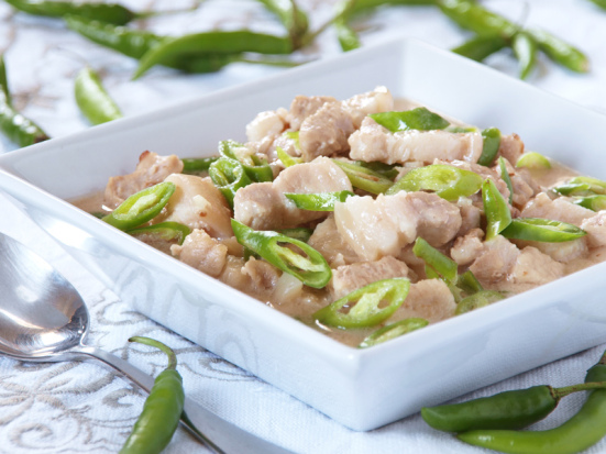 Bicol Express - Filipino pork and chillies cooked in coconut milk